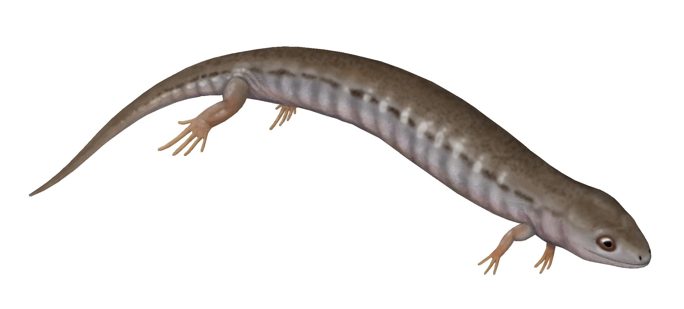 Life restoration of Hyloplesion longicostatum. Based on figures 89-91 of The Order Microsauria by Robert Carroll and Pamela Gaskill. Memoirs of the American Philosophical Society Volume 26.